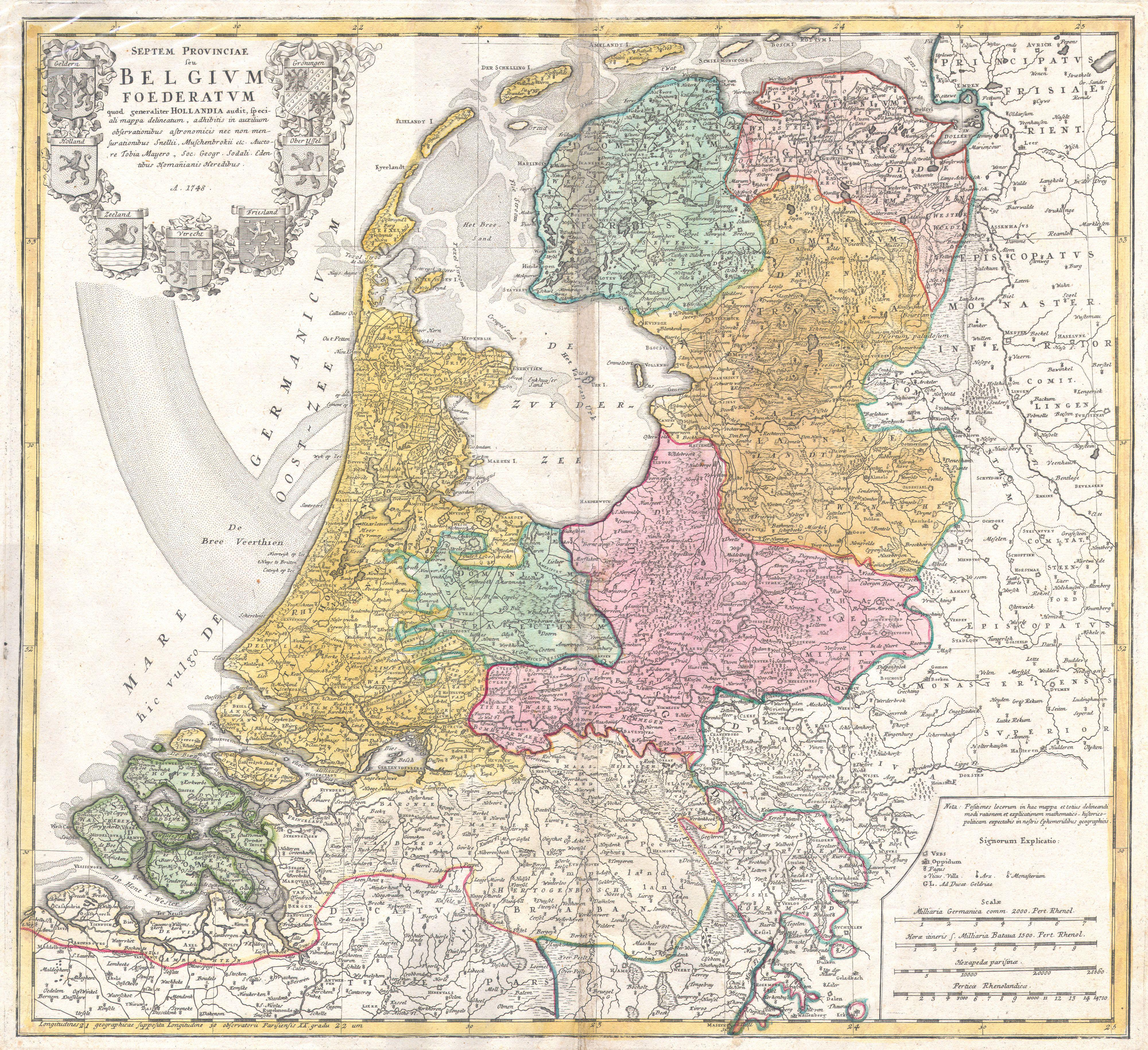 A beautifully detailed 1748 Homann Heirs map seven states of the Belgian Federation – what is today Holland or the Netherlands. Title cartouche in the upper left quadrant features the armorial coasts of the seven states: Geldern, Holland, Zeeland, Utrecht, Friesland, Ober Issel, and Groningen. This map was drawn by Johann Tobias Mayer for inclusion the 1752 Homann Heirs Maior Atlas Scholasticus ex Triginta Sex Generalibus et Specialibus…. Most early Homann atlases were “made to order” or compiled of individual maps at the request of the buyer. However, this rare atlas, composed of 37 maps and charts, was issued as a “suggested collection” of essential Homann Heirs maps.